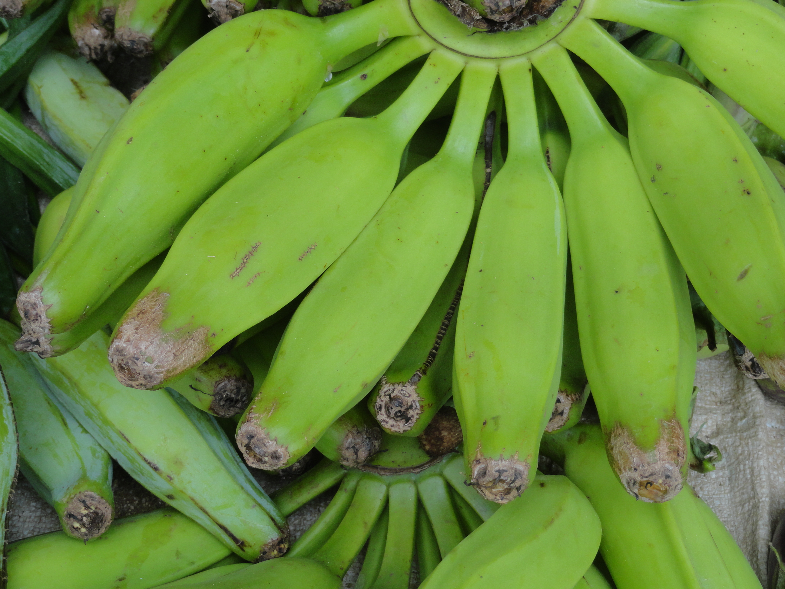 పచ్చి అరటికాయలు. కూర ఆరటి. పాకాలలో తీసిన చిత్రము